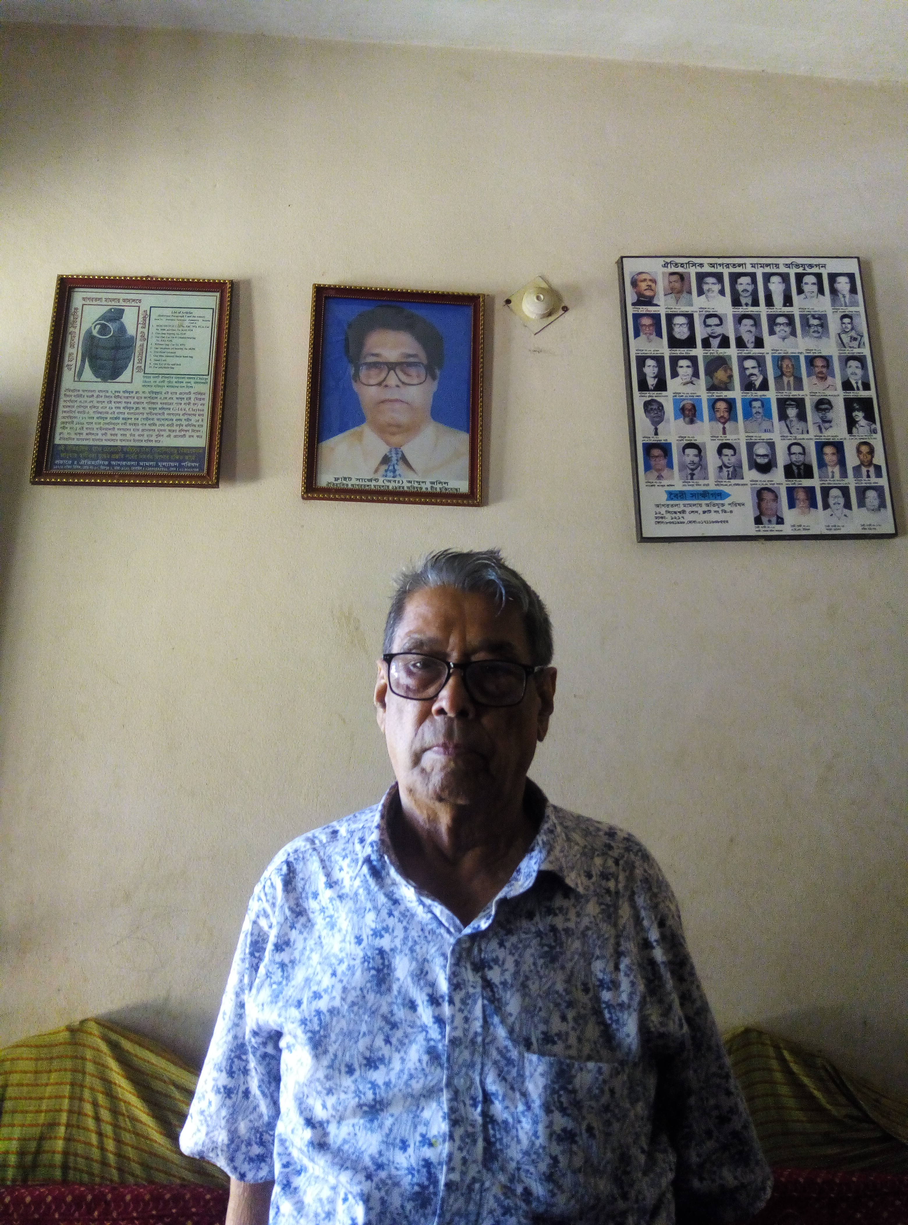 One of the 35 persons accused in the Agartala Conspiracy Case in 1968. Visited in his own home at Sarrabad, Narayanpur, Belabo, Narsingdi, dhaka, Bangladesh